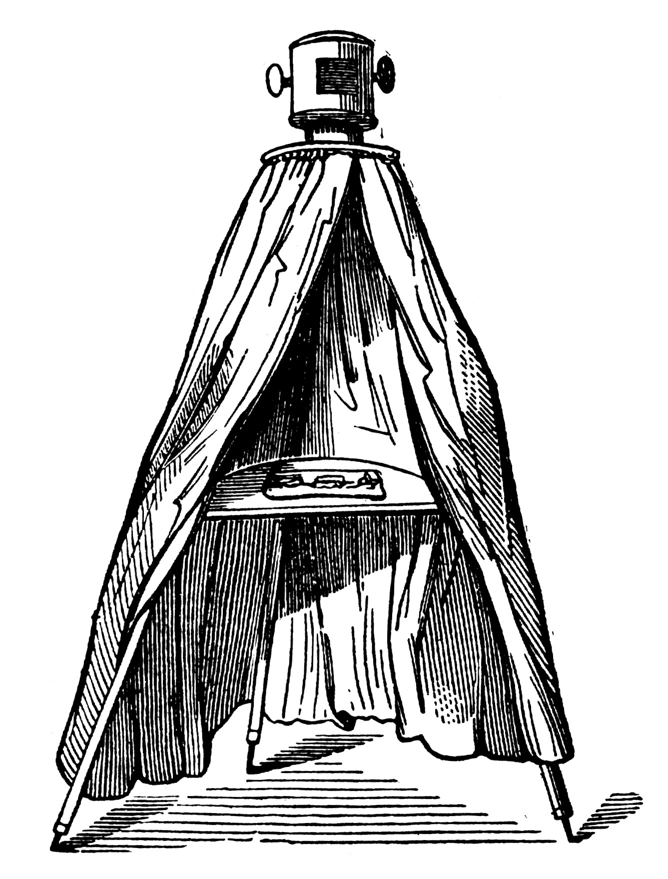 caption: "Fig. 88. Camera for Drawing Landscapes (From the Catalogue of Queen & Co., 1880). The dark room is made of opaque cloth over a tripod. The 45 degree mirror at the top rotates to take in any desired part of the surrounding country and an objective projects the image down upon the horizontal drawing shelf."